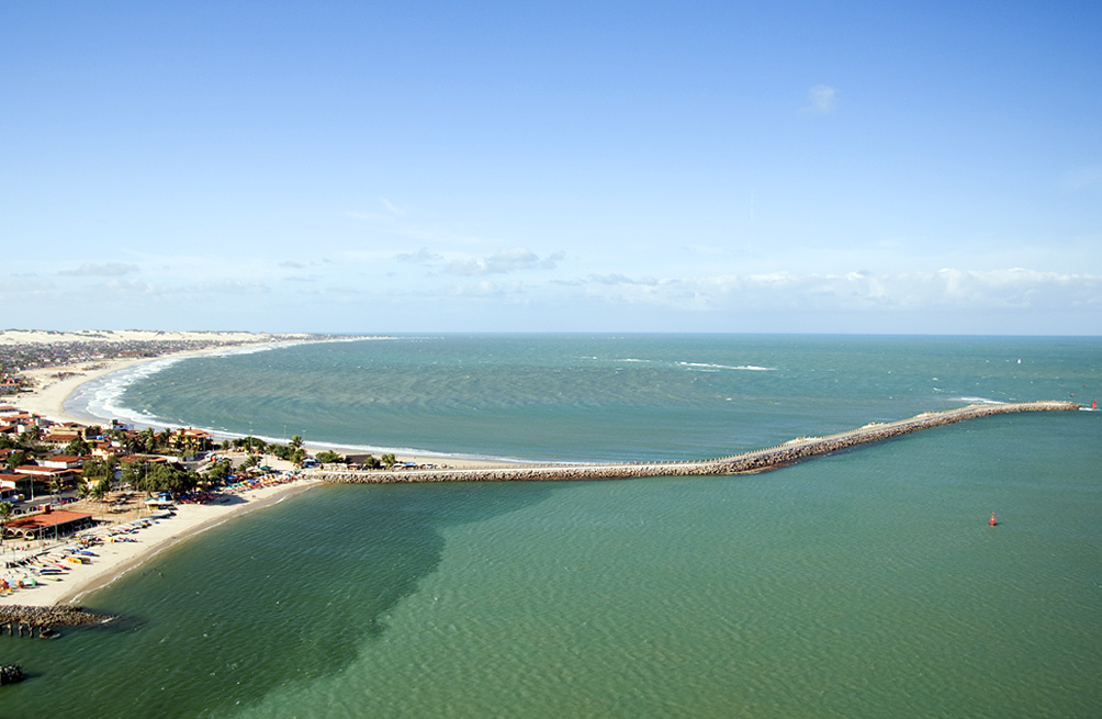 Mirante da Gente in Redinha beach in Natal, Brazil.